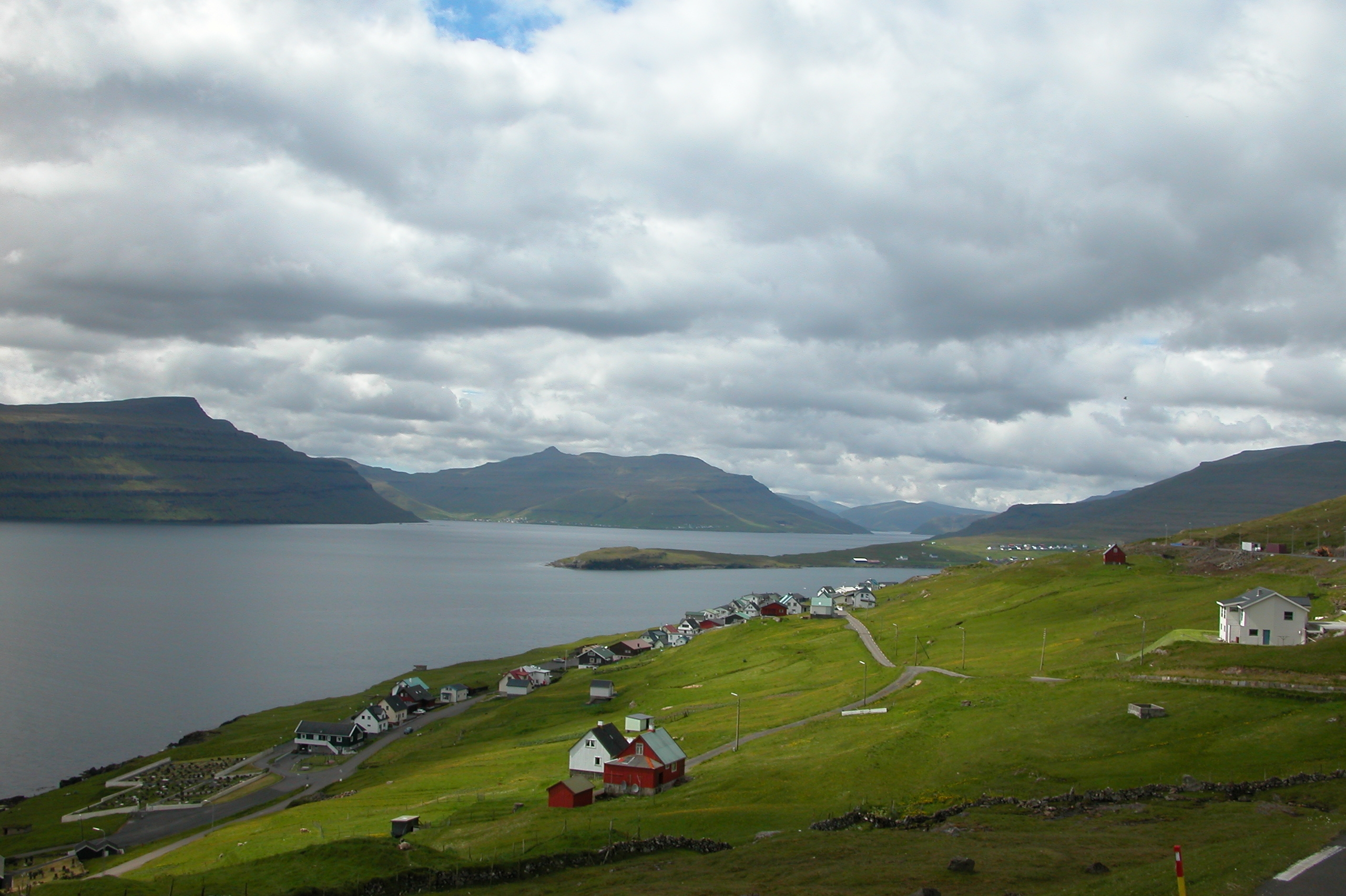 Nes (Eysturoy) at the Skálafjørður in Eysturoy, Faroe Islands